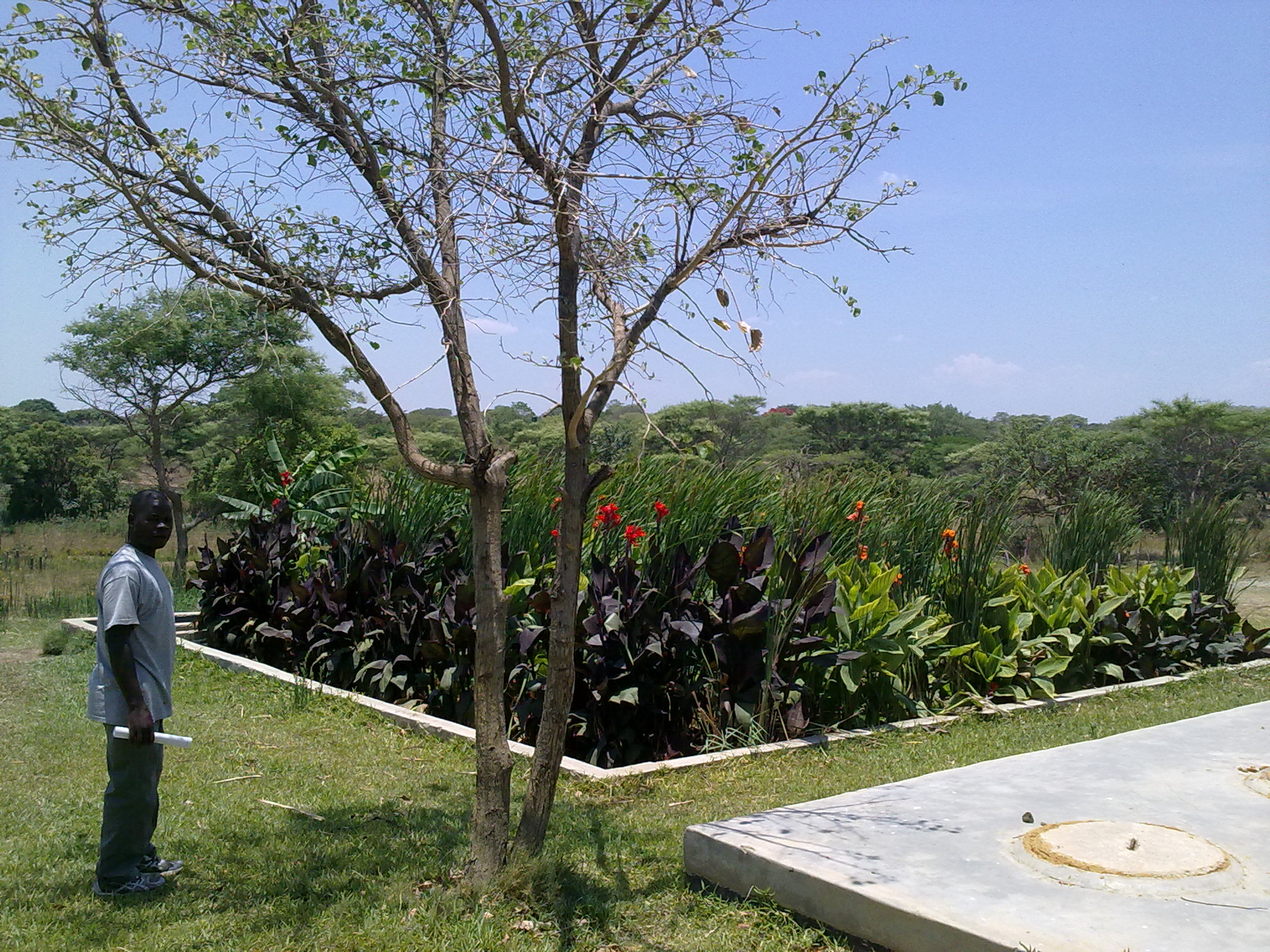 Constructed wetland where water from the DEWATs is polished